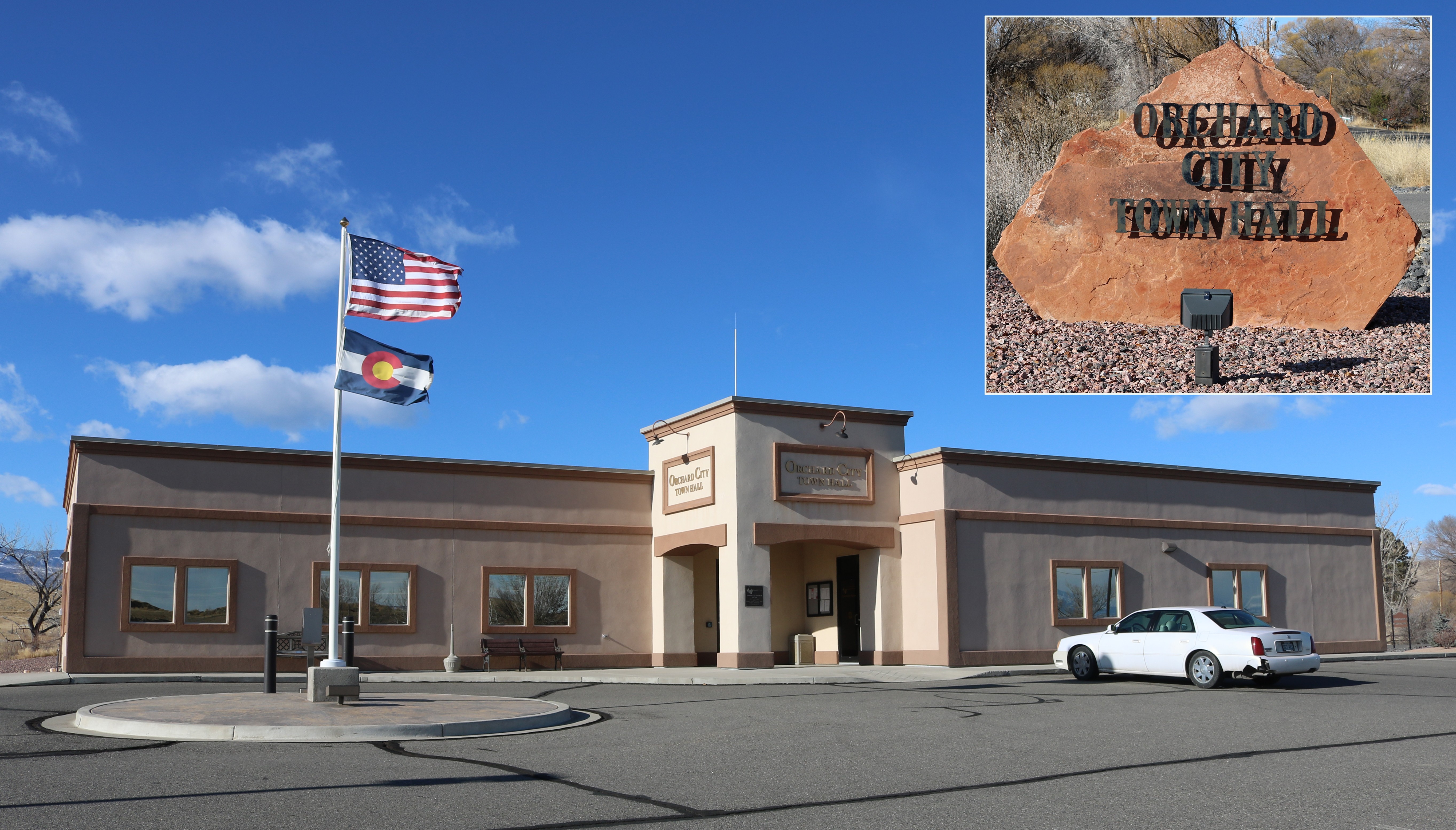 The town hall of Orchard City, Colorado, located at 9661 2100 Road, Orchard City, Colorado 81410. The inset shows the sign that's along the road at the bottom of the property's driveway.